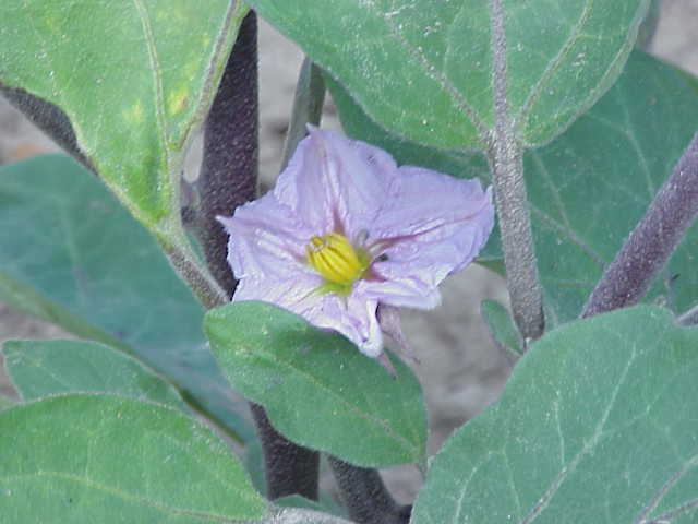 Species: Solanum melongena Family: Solanaceae Image No. 2